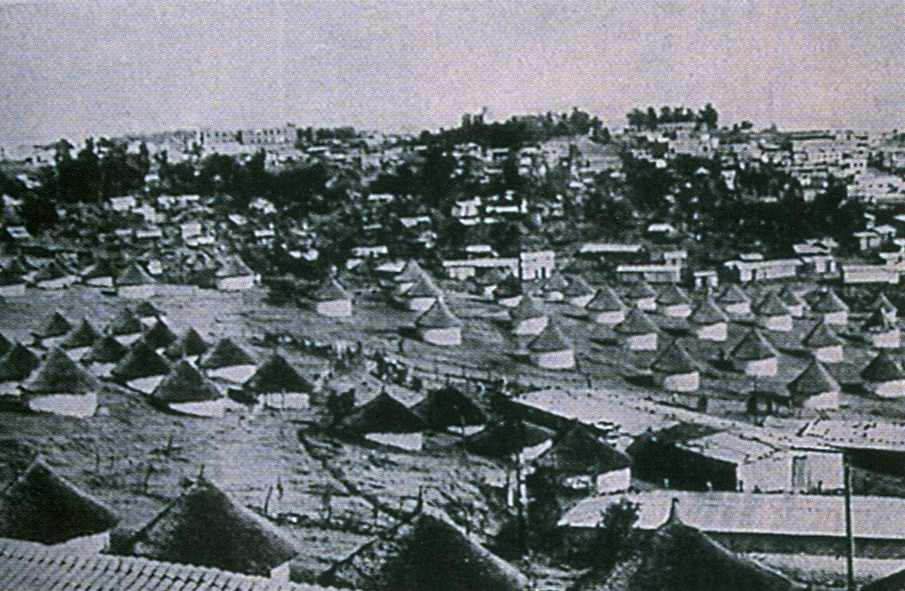 Askari (local) housing in Asmara